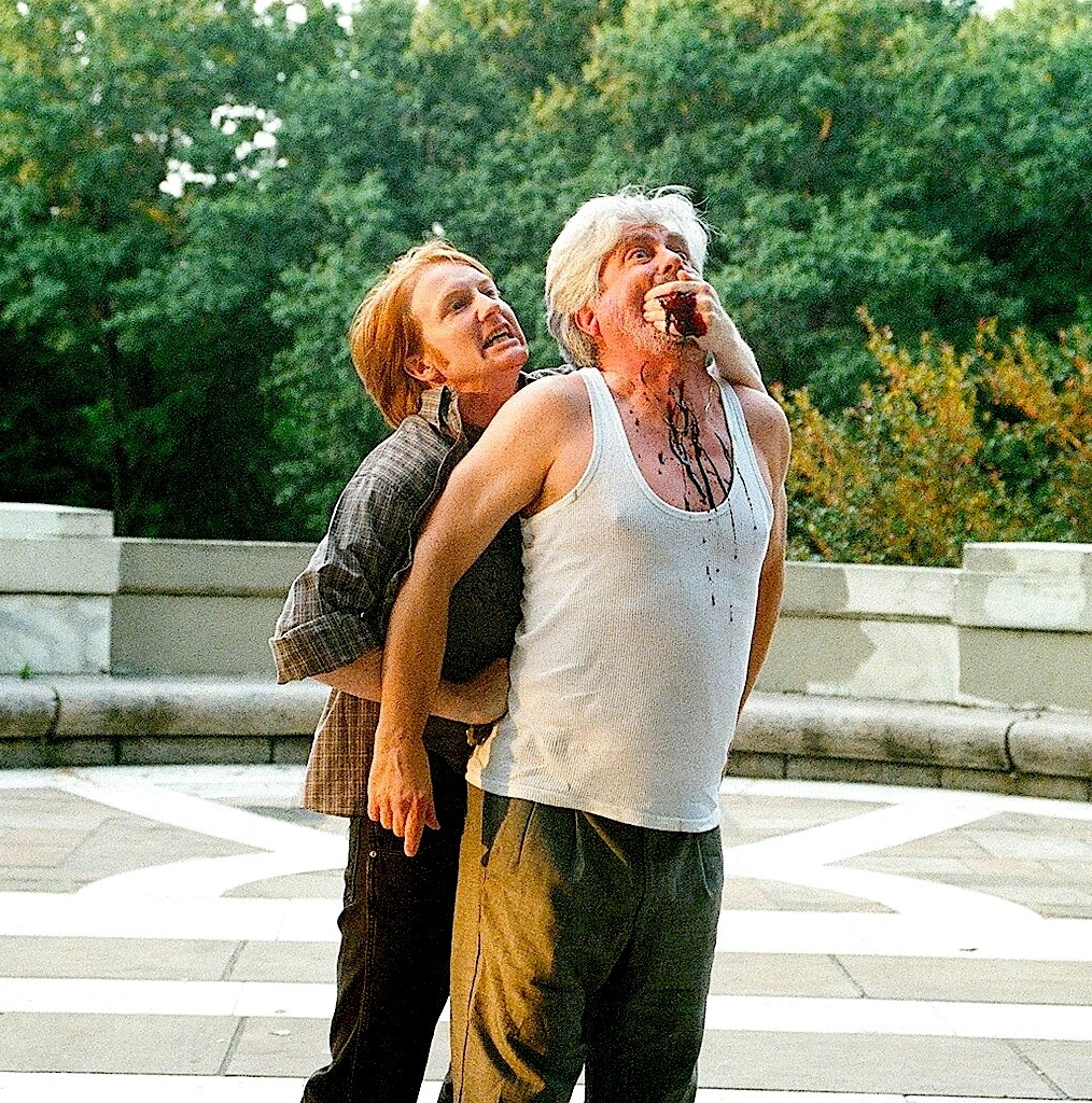 The Death of Clarence